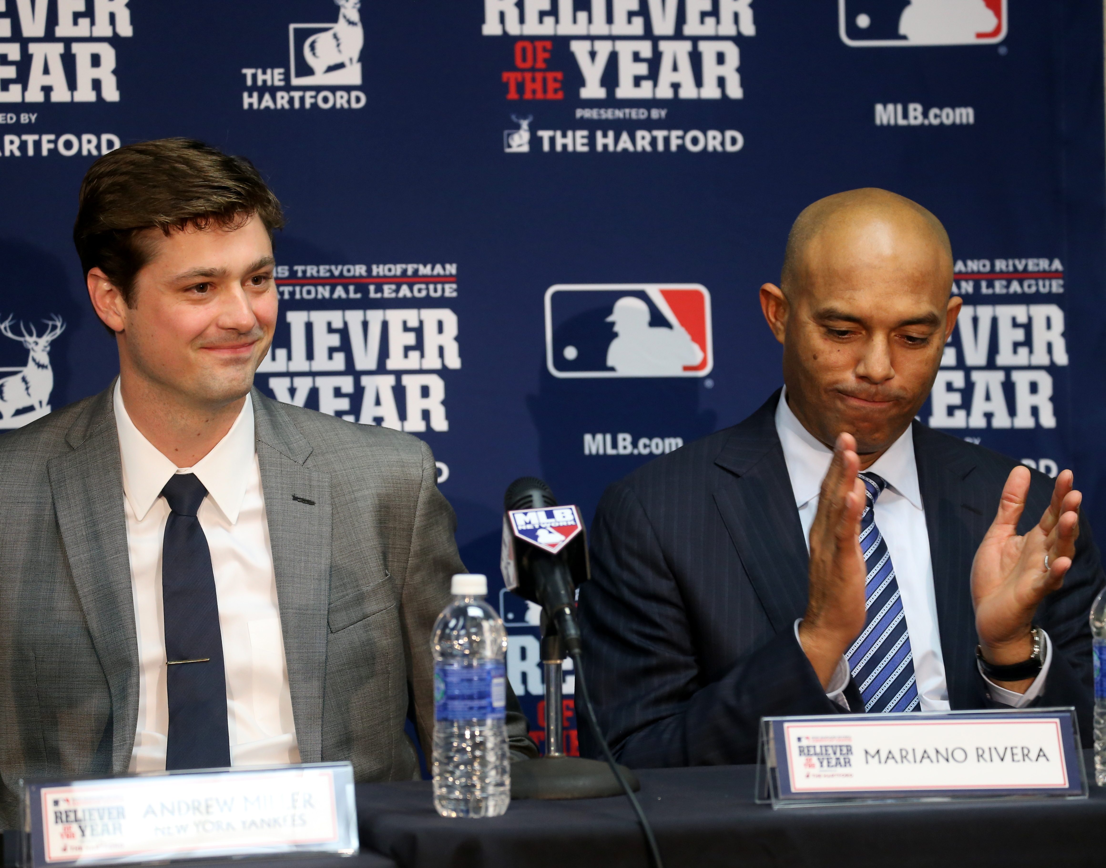 New York Yankees closer Andrew Miller at a press conference announcing his win of the Mariano Rivera American League Reliever of the Year Award. Miller is sitting next to the award's namesake, former Yankees pitcher Mariano Rivera